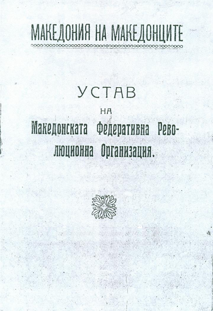 Statut of MFRO - Macedonian federativ revolutionary organisation in Bulgaria